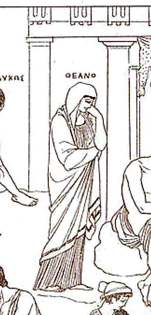 Detail form Reconstruction of Iliupersis by Polygnotus.JPG